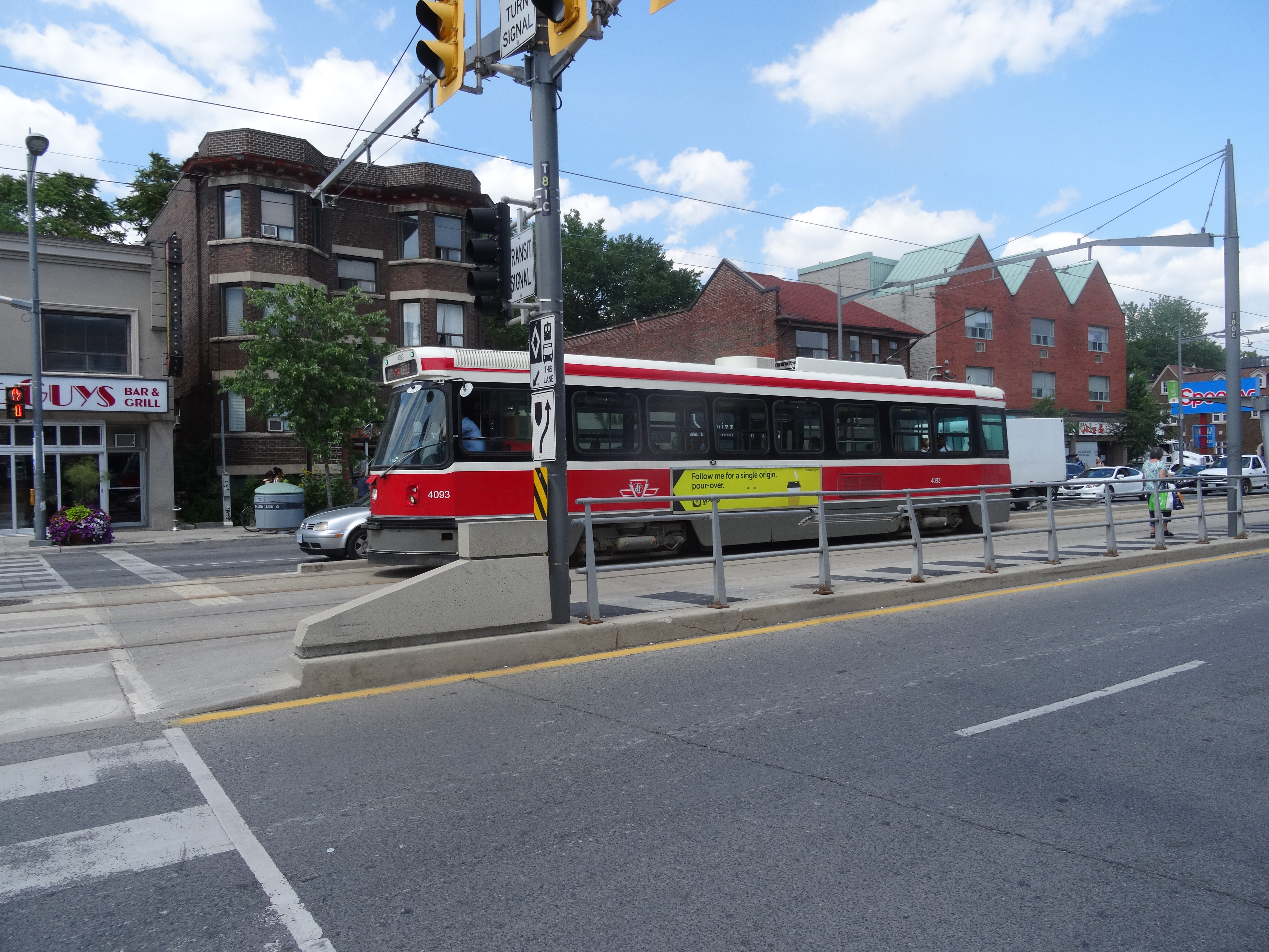 512 streetcar on St Clair Avenue, 2015 07 10 (2)